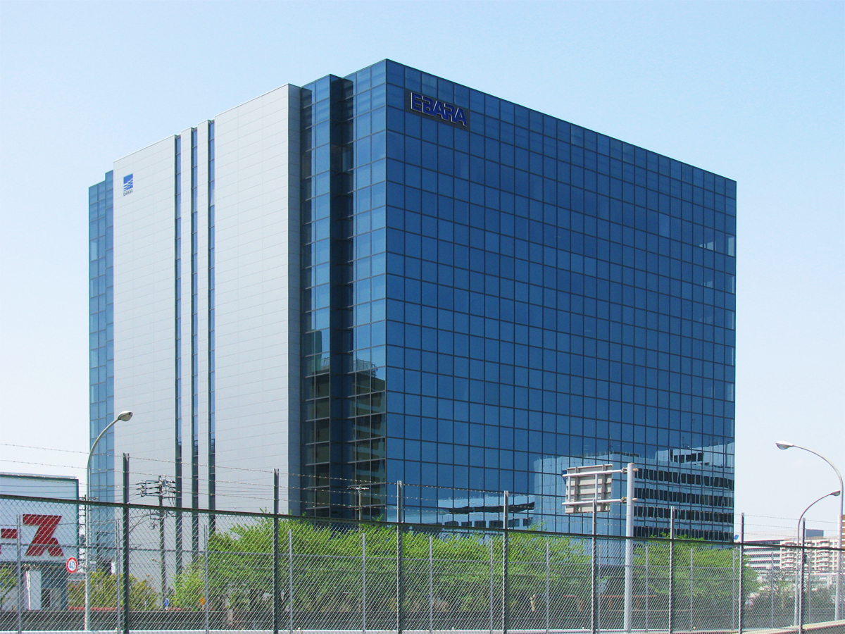 The Ebara Corporation Headquarters. This place is Haneda-asahicho in Ōta, Tokyo, Japan.